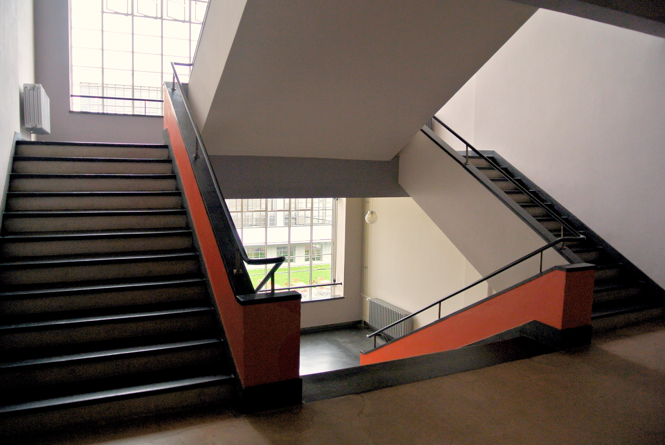 Dessau-Bauhaus